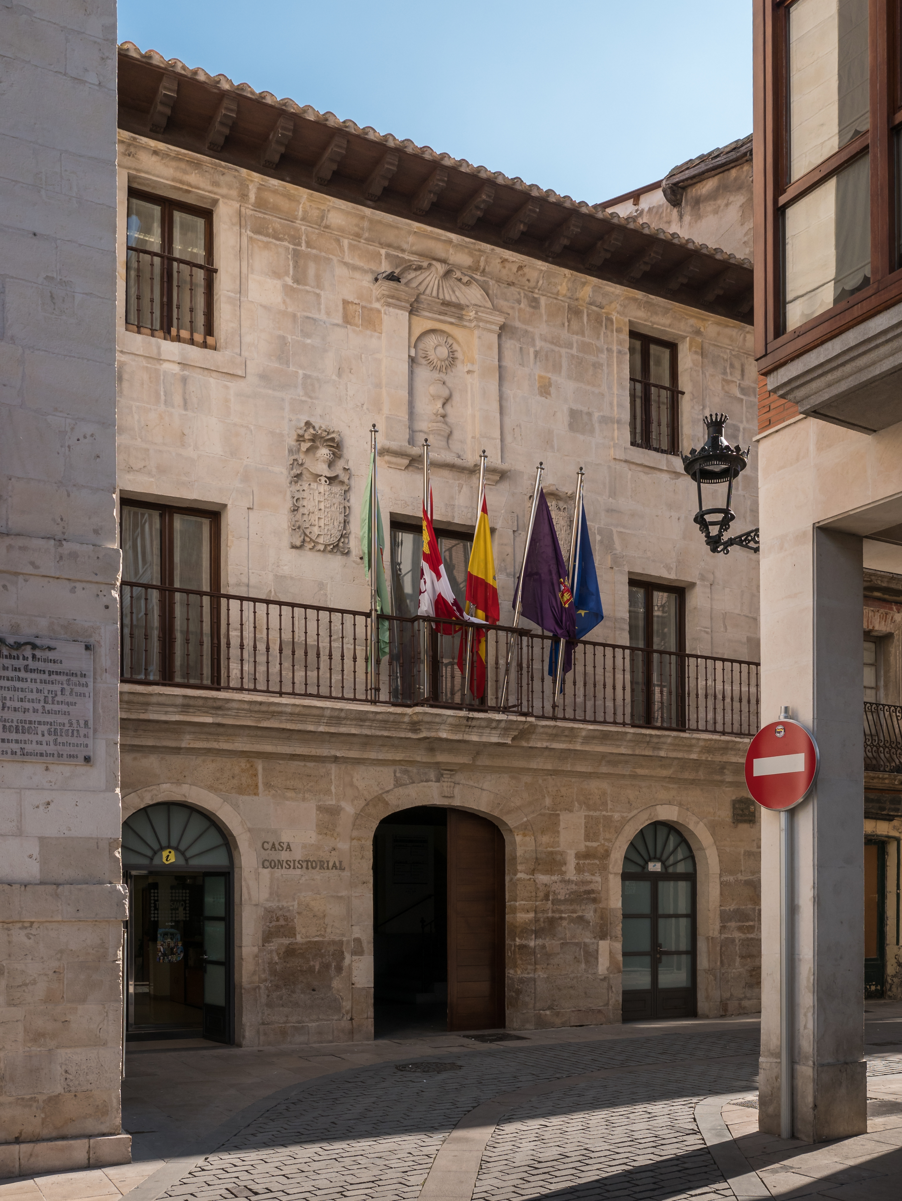 Town hall of Briviesca. Burgos, Castilla-León, Spain